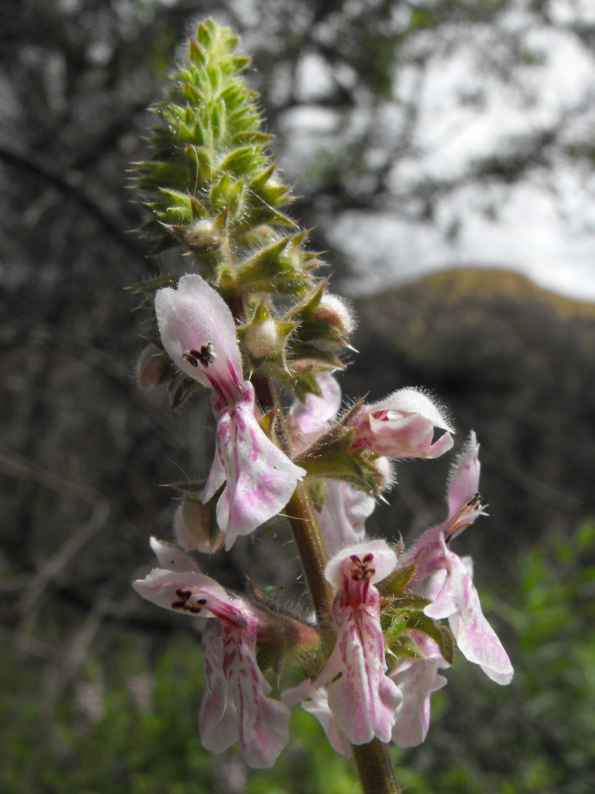 Stachys ajugoides at Blue Sky Ecological Reserve in Poway, California, USA.